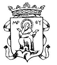 Coat of arms of the Regular Clerics of the Mother of God from Lucca, from a print of 18th century